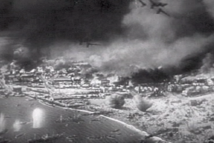 British ships rescuing the Allied troops under German Stuka fire at Dunkirk (France, 1940). Screenhot taken from the 1943 United States Army propaganda film Divide and Conquer (Why We Fight #3) directed by Frank Capra and partially based on, news archives, animations, restaged scenes and captured propaganda material from both sides.